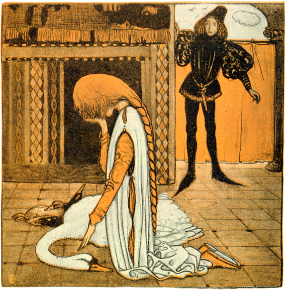 Illustration for "Svanhamnen" (The Swan maiden) by Helena Nyblom in "Bland tomtar och troll" (Among gnomes and trolls), 1908. See also Image:Swan princess hiding by John Bauer 1908.jpg, Image:Swan princess by John Bauer 1908.jpg and Image:Svanhamnen i Bland tomtar och troll, 1908..jpg from the same story.